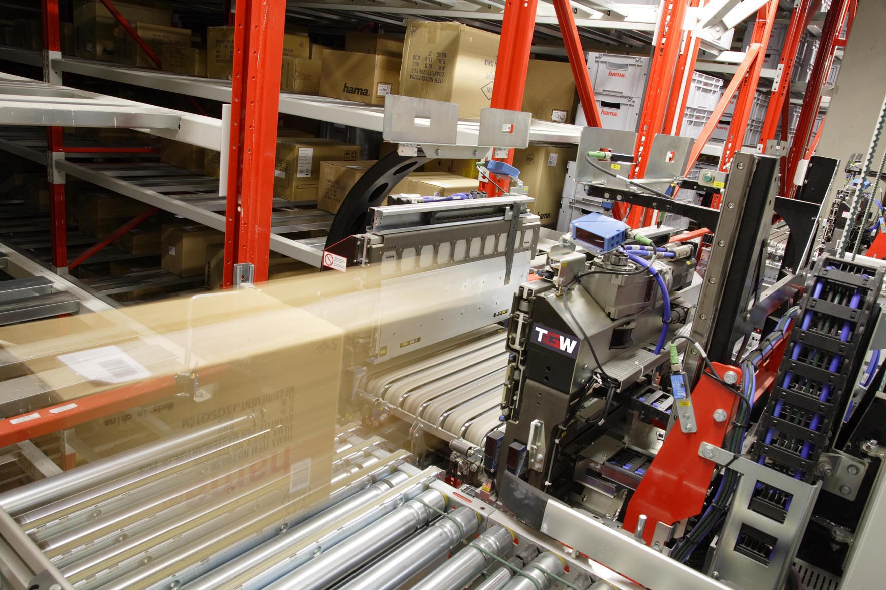 Twister: load handling device for various carton sizes in automated AS/R systems